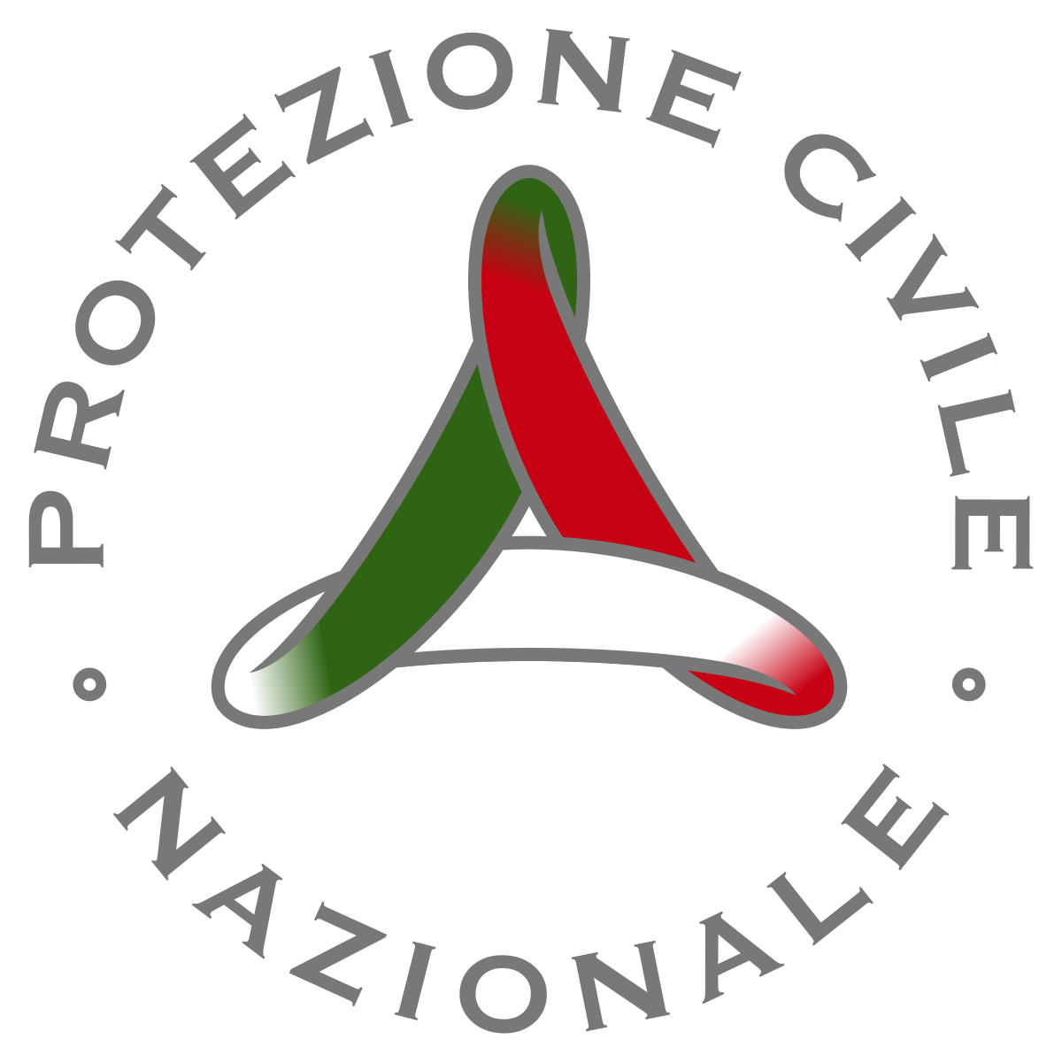 Protezione Civile logo.